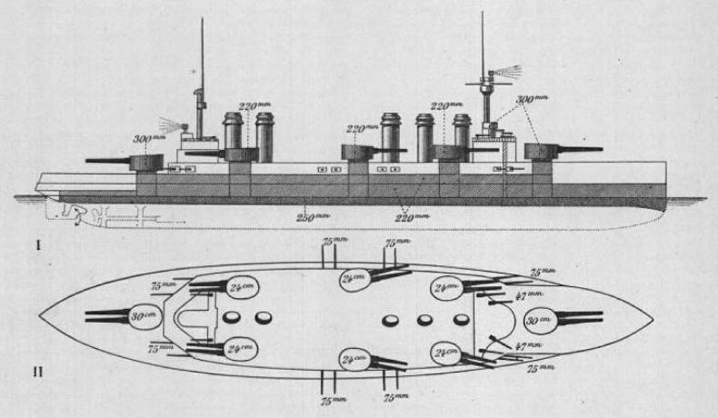 Shielding and armament of French battleships Danton, Diderot, Condorcet, Mirabeau, Voltaire and Vergniaud. I : Thickness of the shield in millimeters. II : Calibre Artillery (in centimeters and millimeters) with its location on the ship.